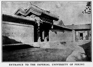 Entrance to the Imperial University of Peking